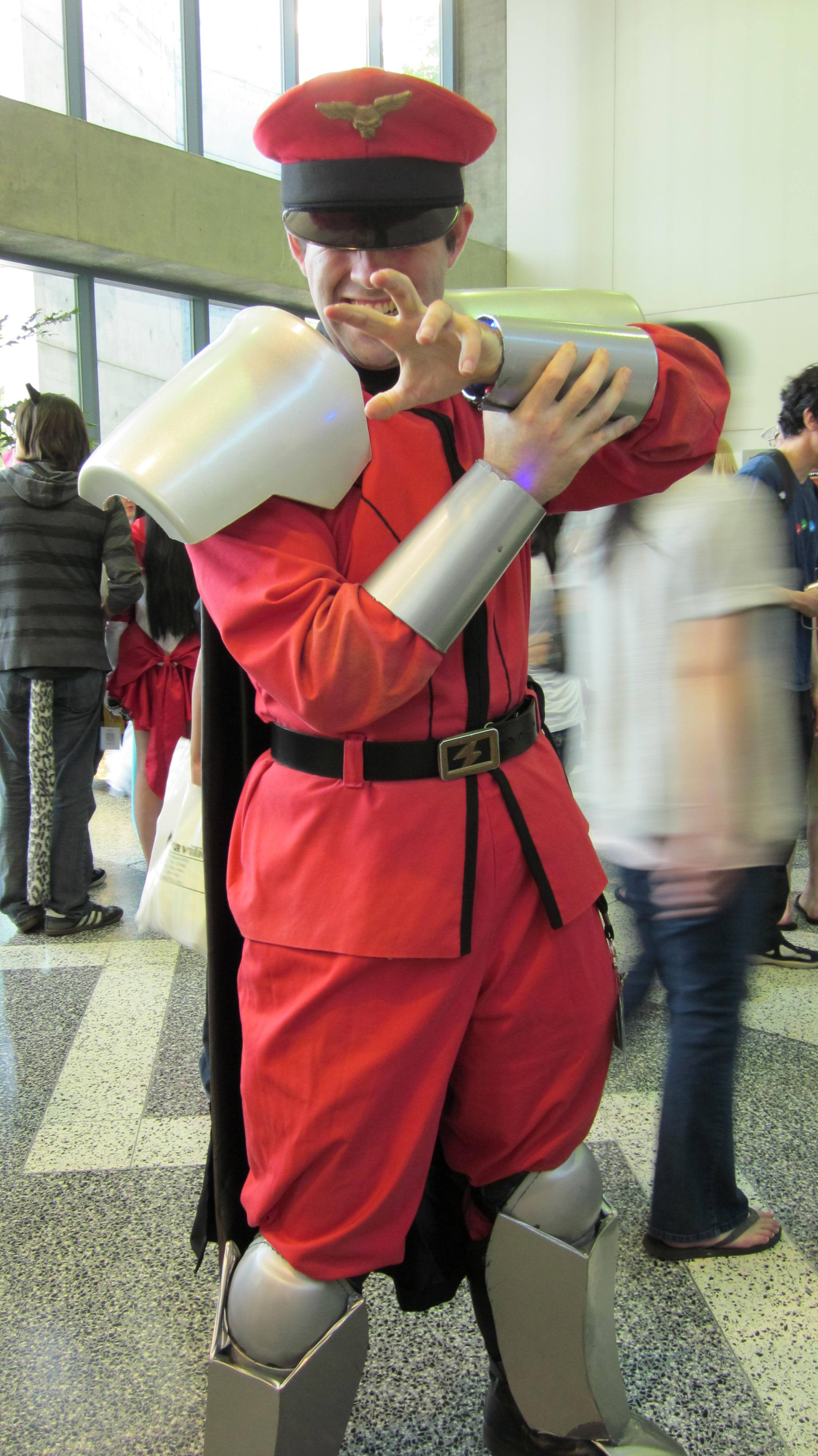 A cosplayer portraying M. Bison from Street Fighter at FanimeCon 2010 in San Jose, California.